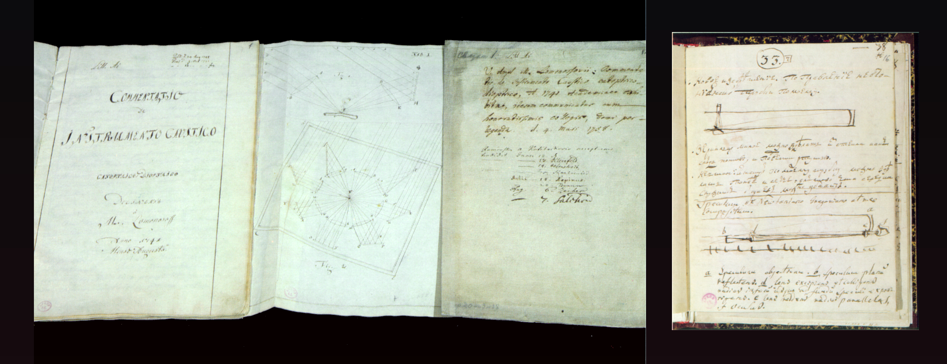 M. Lomonosov. Drawings from manuscripts: Catoptrical-dioptric incendiary istrument and an one-mirror telescope. 1762